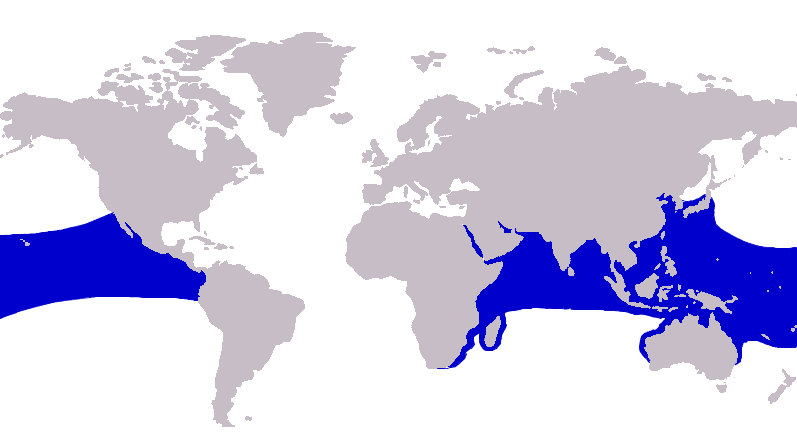 Distribution of bigeye trevally, Caranx sexfasciatus